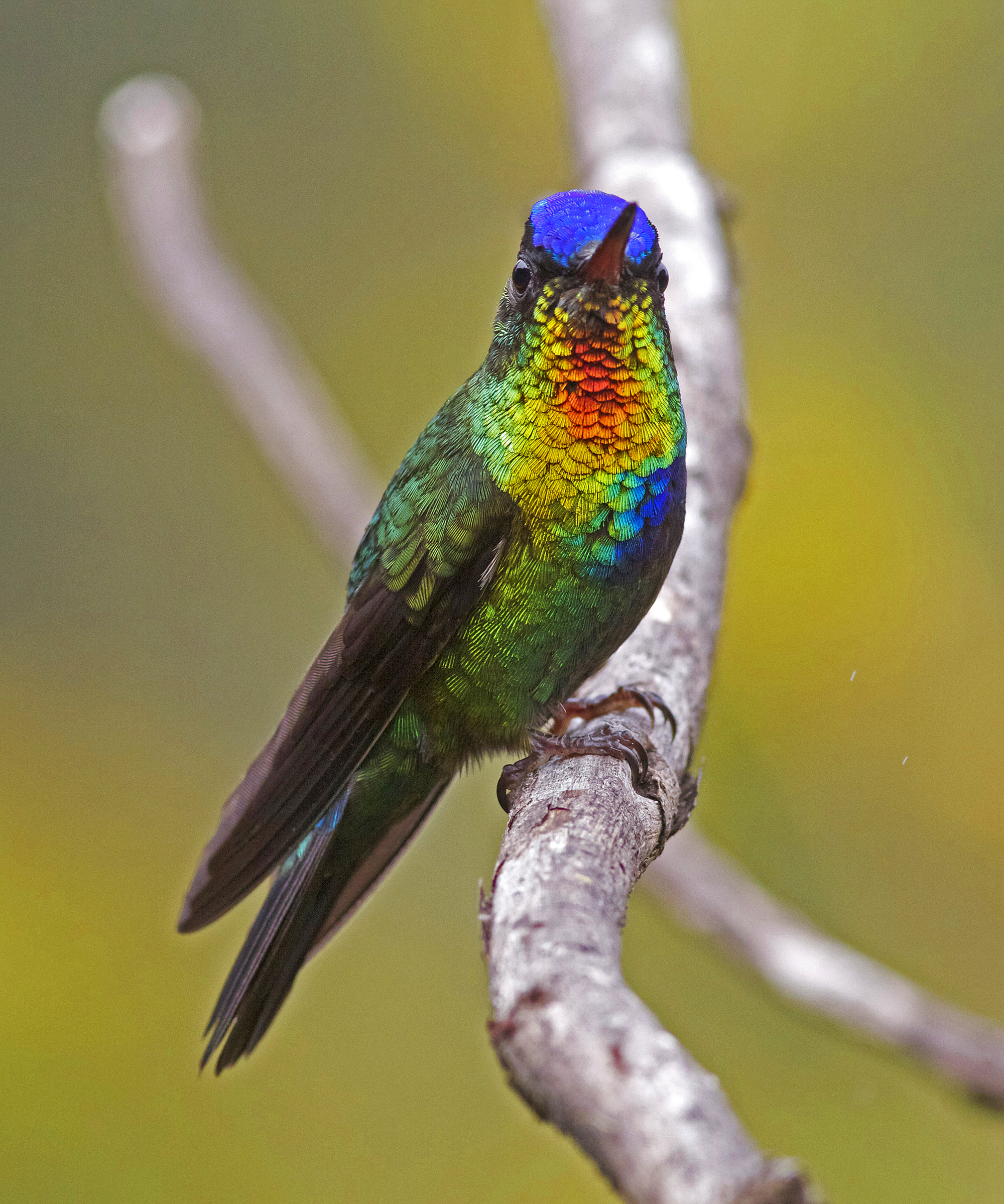 Fiery-throated Hummingbird photo taken at Paraiso del Quetzal, Costa Rica.